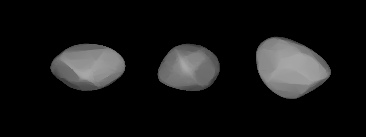 A three-dimensional model of 694 Ekard that was computed using light curve inversion techniques.